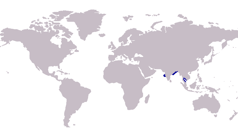 Distribution of Thai whiting, Sillago intermedius using map based on GDFL image